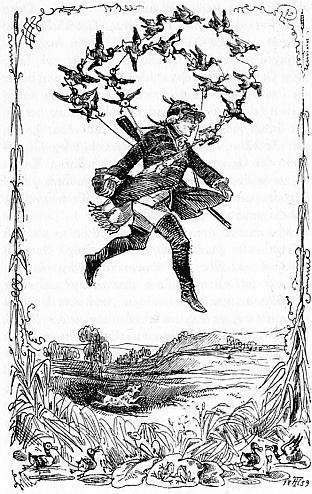 Series of 16 illustrations for Münchhausen by Gottfried August Bürger.